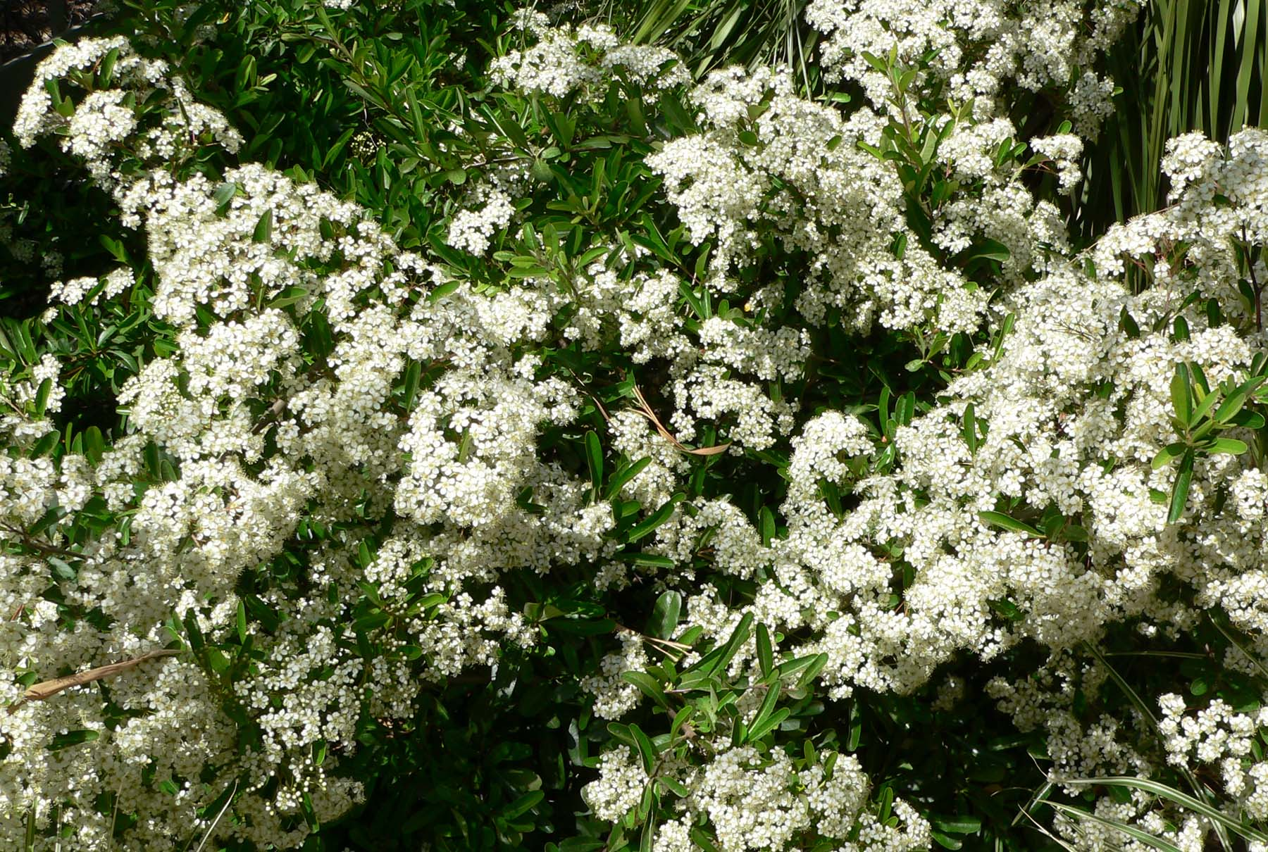 Photo of Pyracantha koidzumii 'Santa Cruz' in bloom at the Desert Demonstration Garden in Las Vegas, Nevada